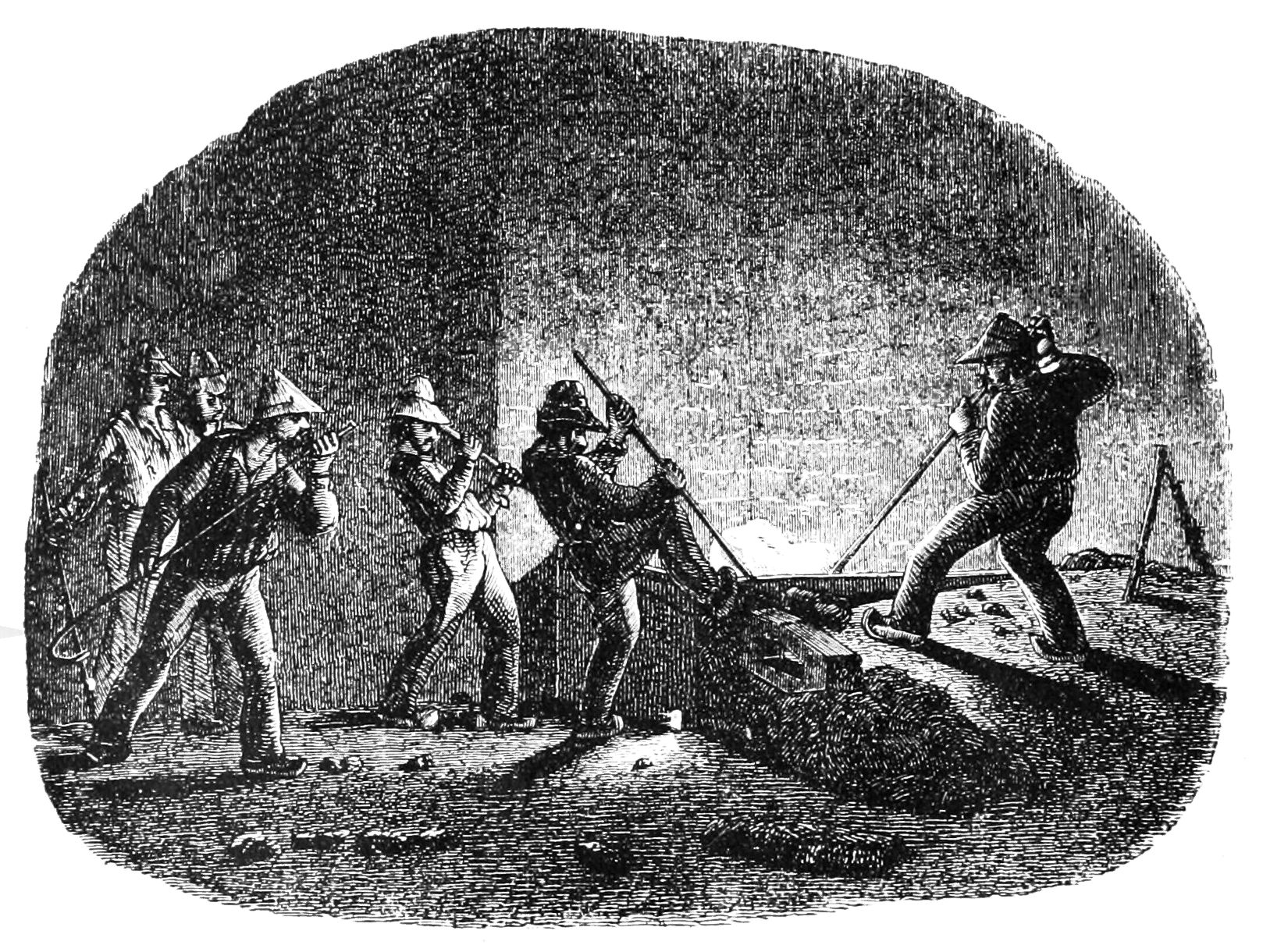 Removing a Ball from a Catalan Forge.